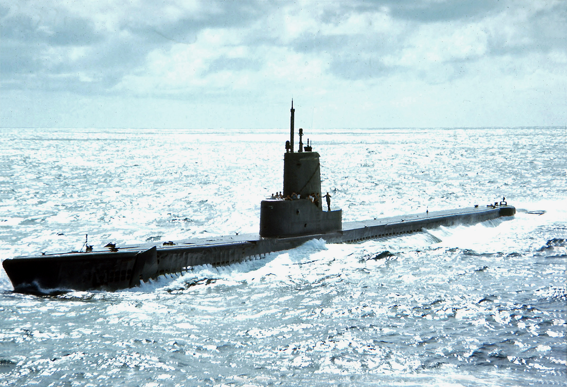 The U.S. Navy Tench-class submarine USS Spinax (SS-489) coming alonside the guided missile cruiser USS Galveston (CLG-3), not visible, in 1965.